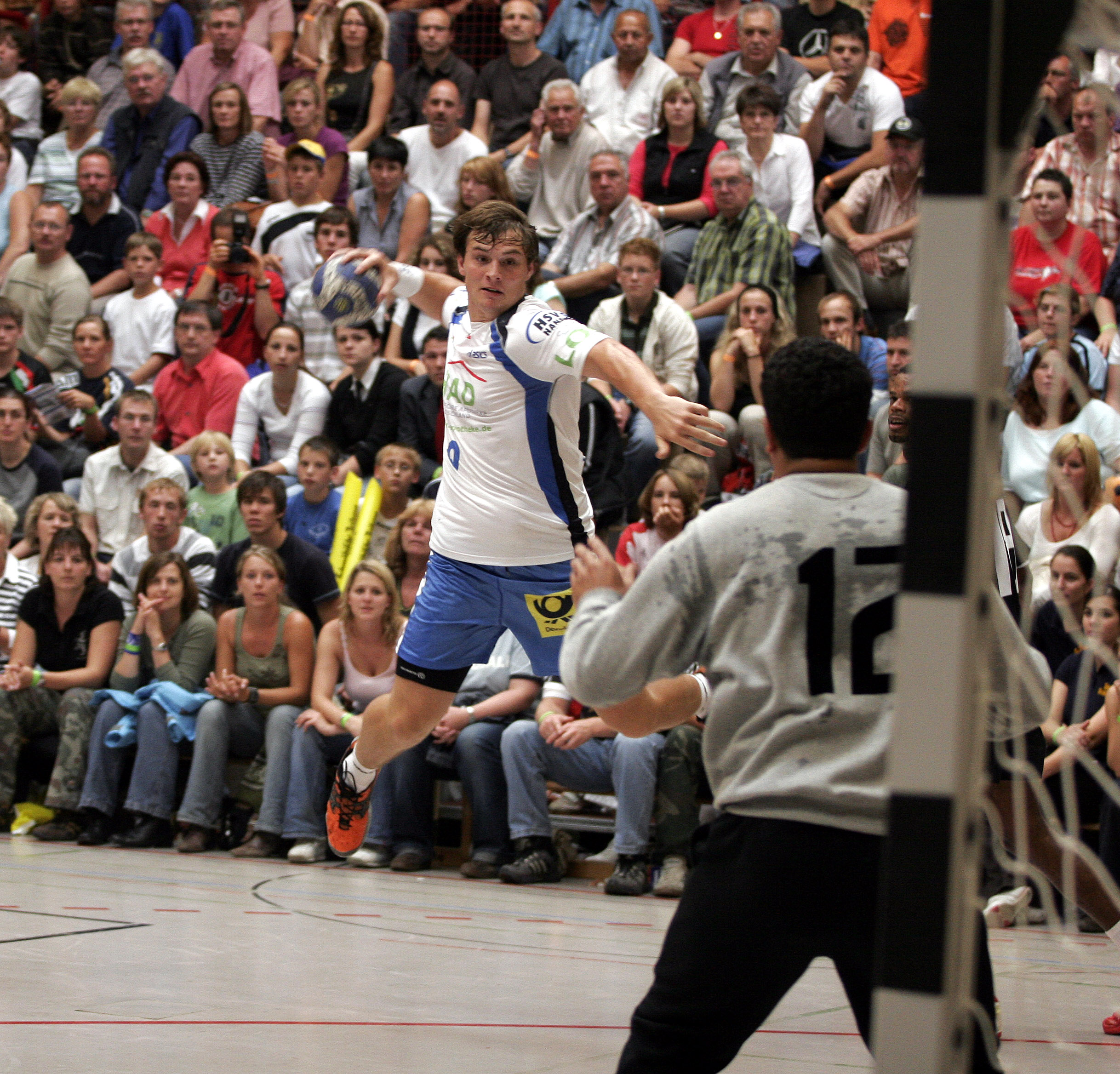 Jan Schult, German handball player from HSV Hamburg, during the Schlecker Cup 2007 in Ehingen (Germany)